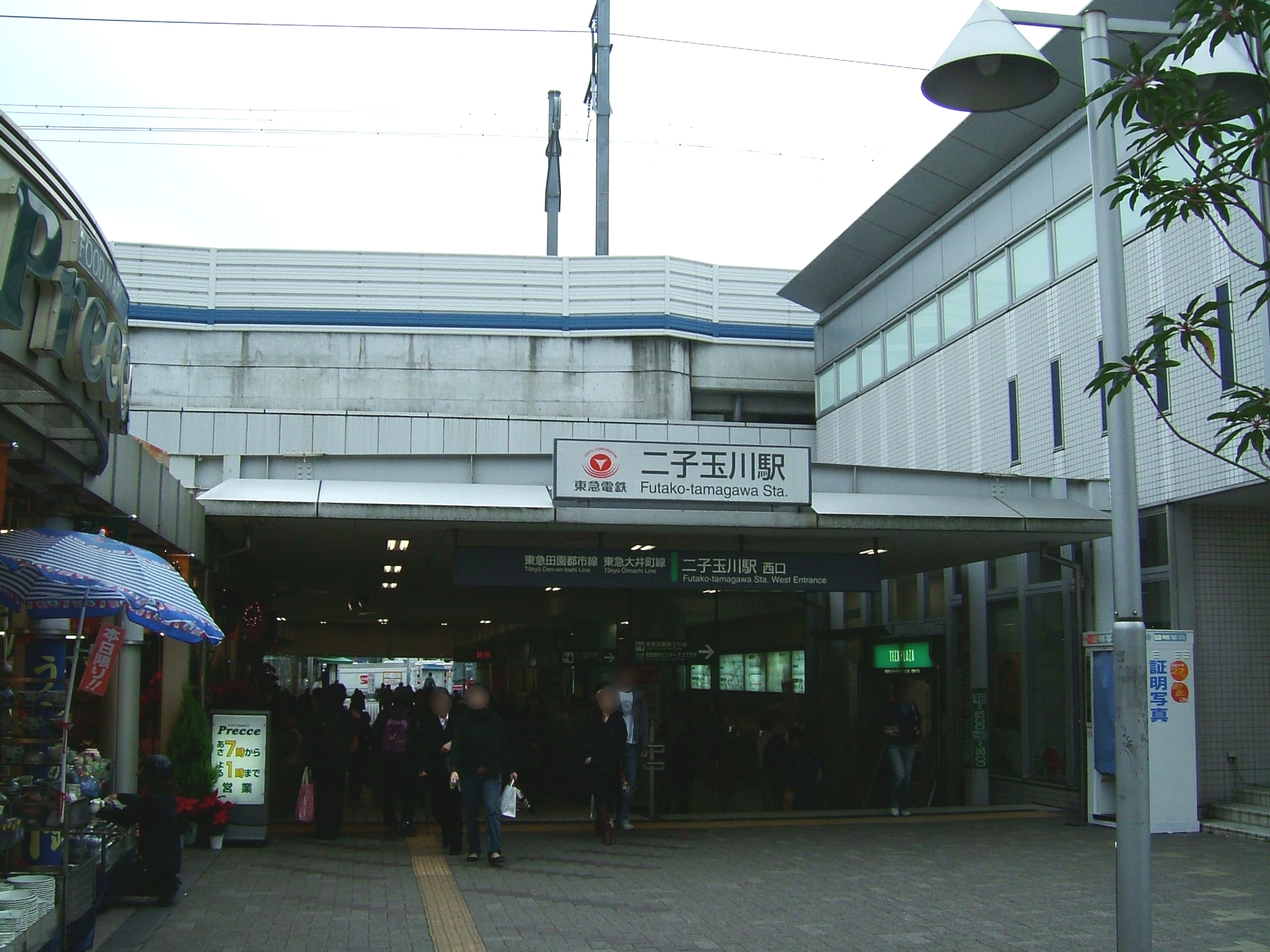 Futako-Tamagawa Station west side entrance